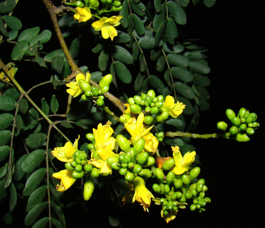 ironwood flowers in sao paulo